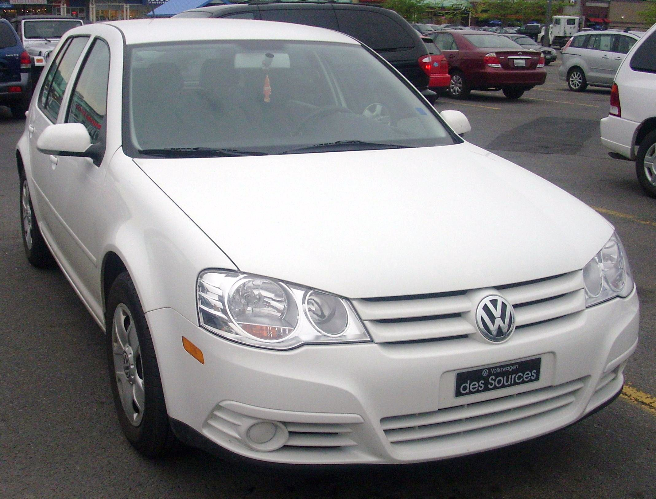 2008 Volkswagen City Golf photographed in Montreal, Quebec, Canada.